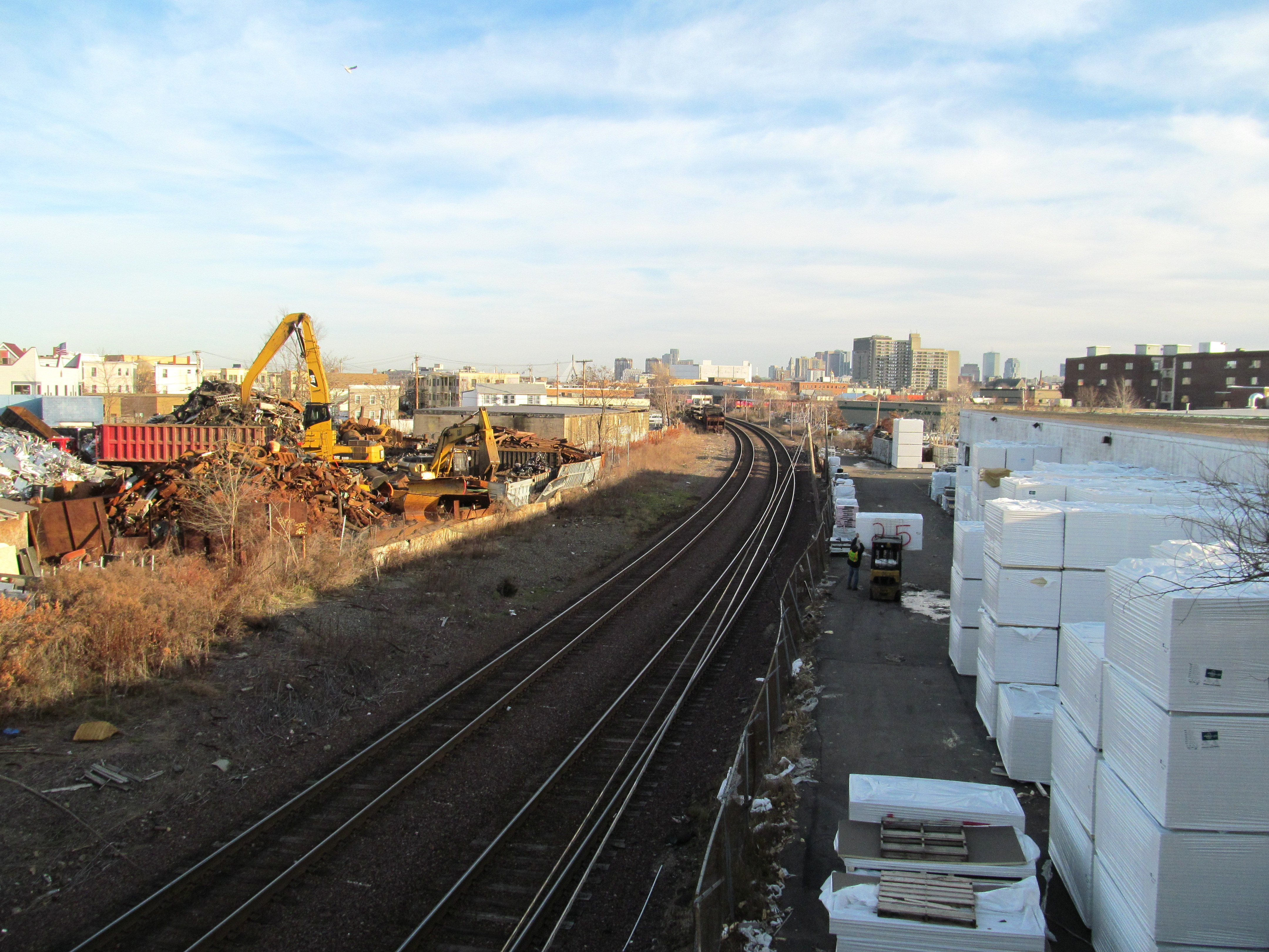 Looking east from the Prospect Street bridge over the Fitchburg Line in Somerville, Massachusetts. This is the site for the planned Union Square station.